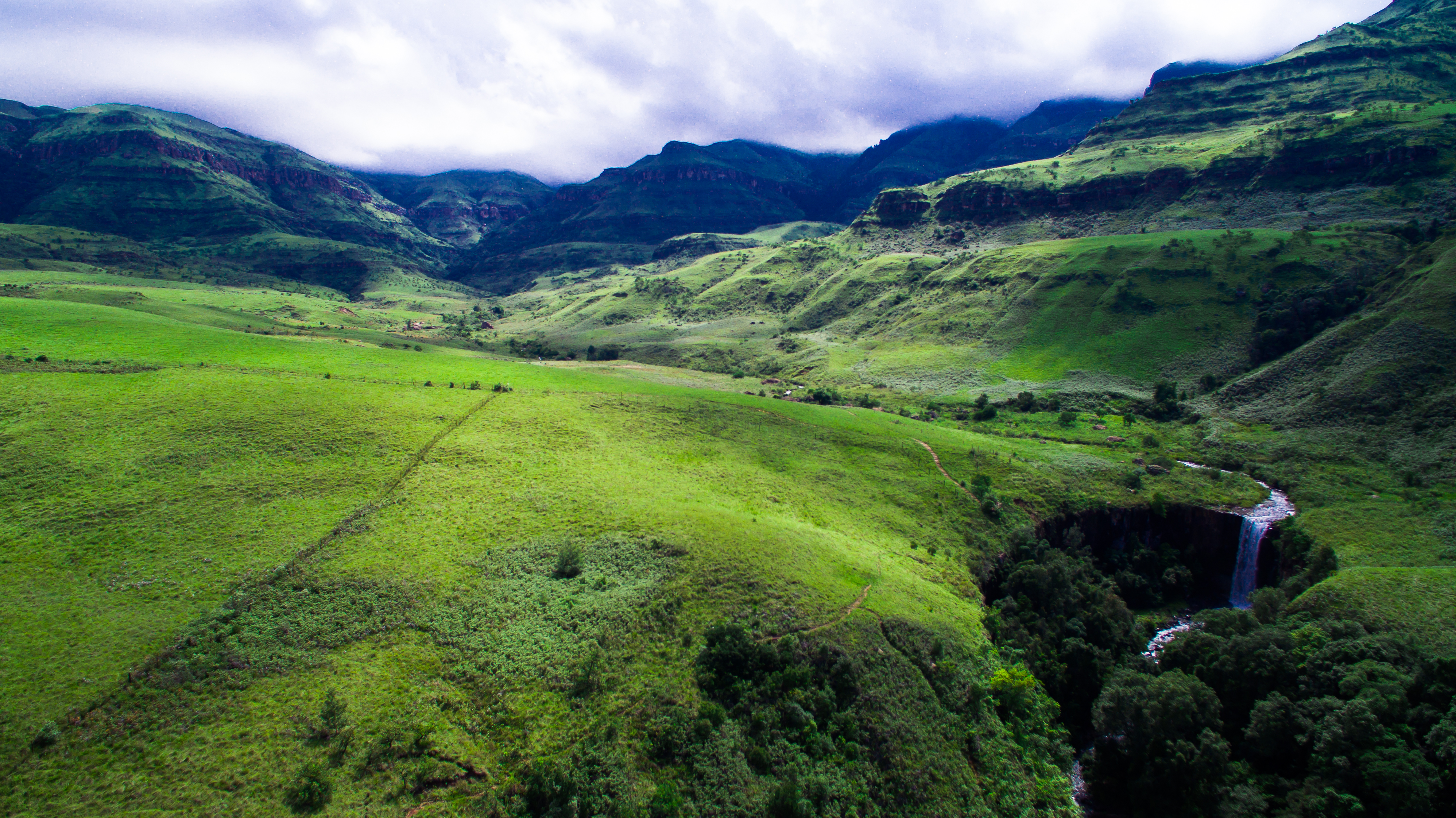 Sterkspruit Falls is located in the foothills of the Central Drakensberg of South Africa. This is prime hiking territory due to the magnificent scenery.